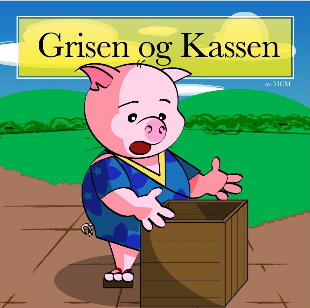 The Pig and the Box is a children's book written and drawn by a Canadian writer, producer and programmer known as "MCM". published in 2006, it deals with the negative sides of digital rights management, written as a reaction to Access Copyright's Captain Copyright campaign directed at kids. the book is public domain. volunteers have translated the story into German, Chinese, Danish and Italian. To date it has also been translated into French, Finnish, Hungarian, Norwegian, Portuguese, Spanish, Japanese, Dutch, Russian and Swedish.